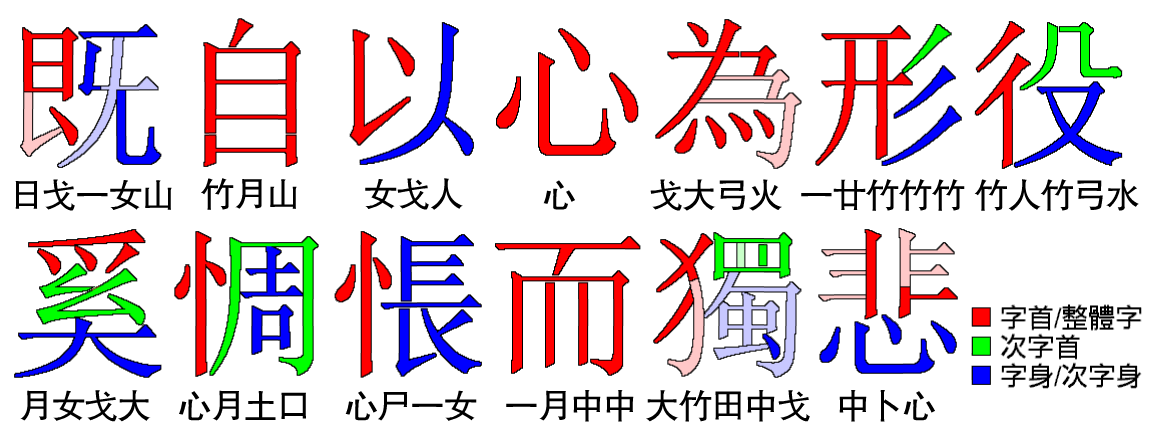 倉頡輸入法取碼示例Examples of Cangjie method coding.